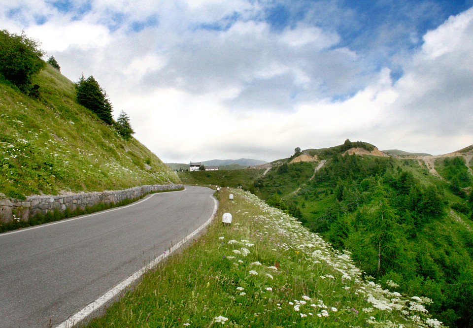 Passo di Croce Dominii